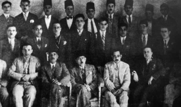 Arabic-language Falastin newspaper editors and journalists, 1913